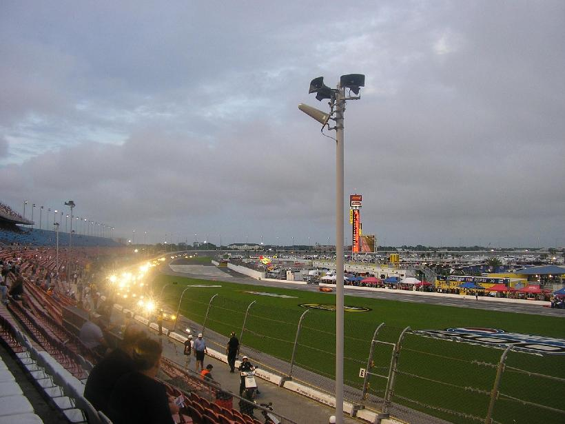 Contestants in the Brumos Porsche 250 resume at regular speeds after a caution is lifted. The race is held at Daytona International Speedway in the Grand American Rolex Sports Car Series.